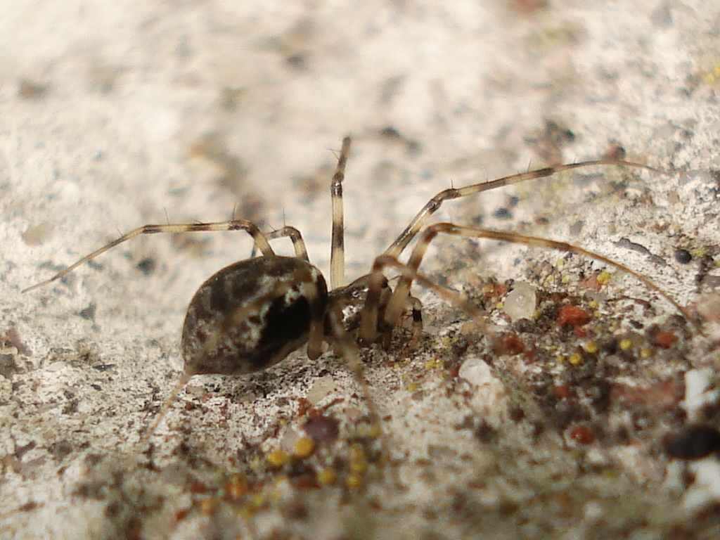 Drapetisca socialis. Found ir Rīga town, Latvia